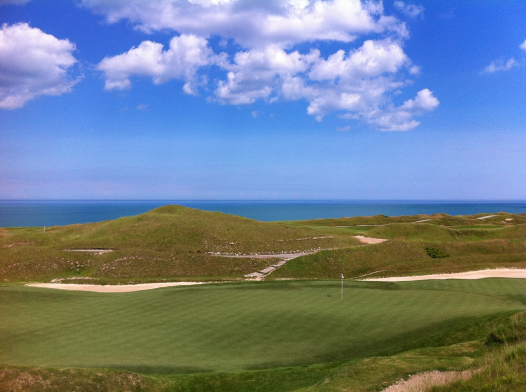 Shoreline view of 12 on Whistling Straits Irish